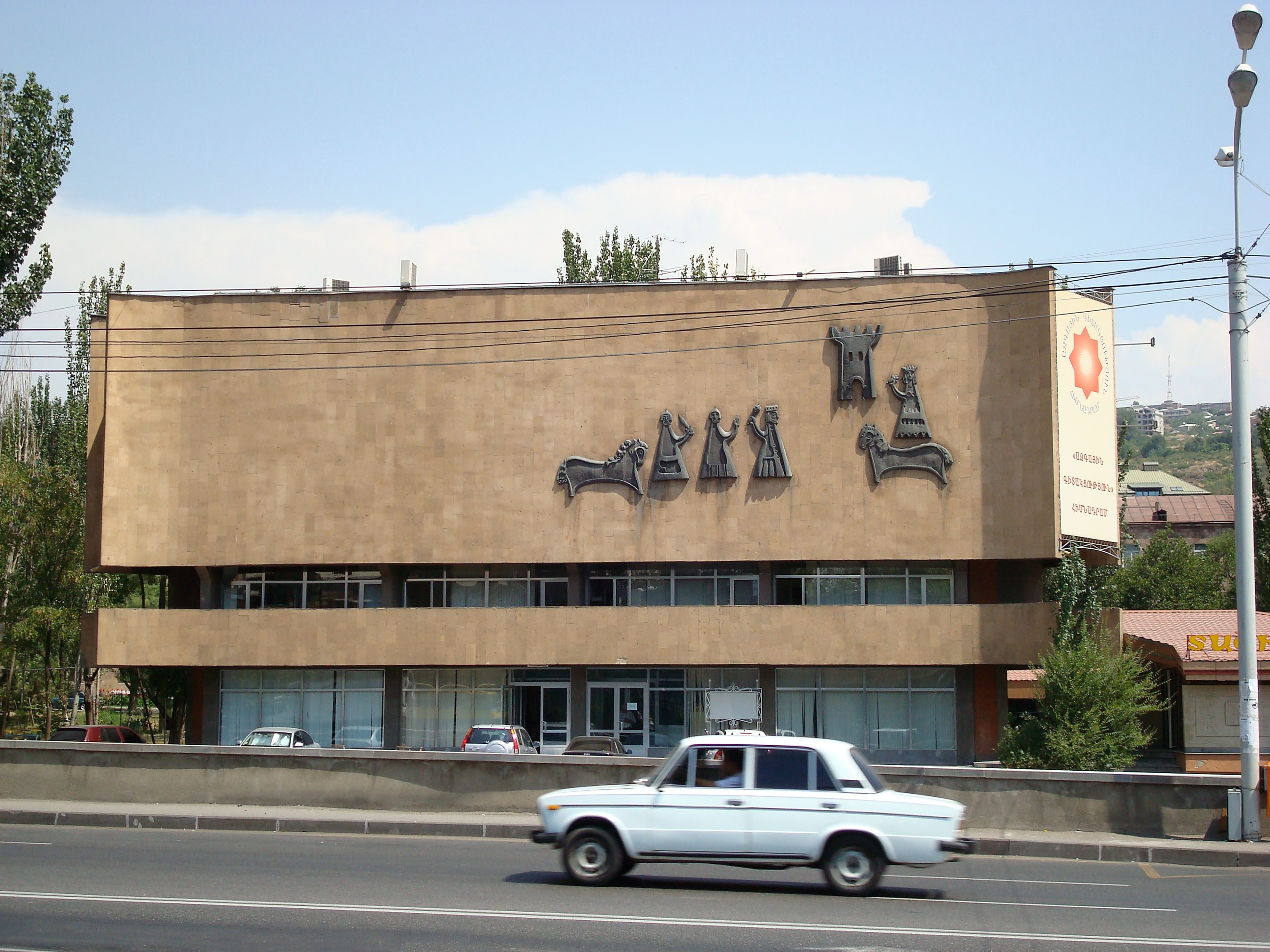 Chess House in Yerevan, Armenia